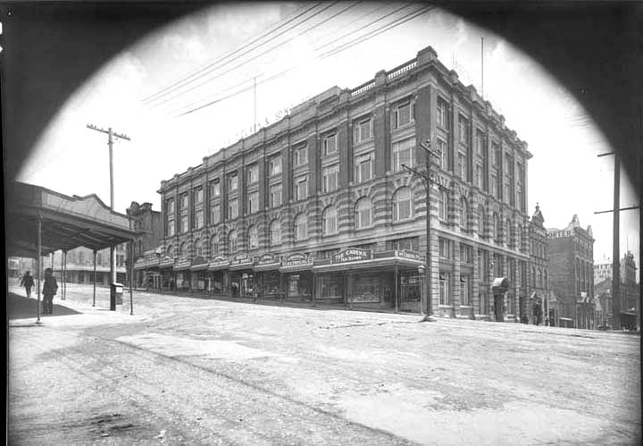 Looking north west from the corner of Elliot Street (now Bledisloe Street), showing Archibald Clark and Sons Limited Building in Wellesley Street West, premises of Cadena Tea Rooms, Universal Electrical Company (centre), La Modiste Millinery, E Hare, herbalist, D Dalgrosso, hairdresser, and others to the vicinity of Albert Street, with Elliott Street (right), premises of F E Jackson and Company Limited, china merchants and Smith and Caughey Limited's bedding factory.